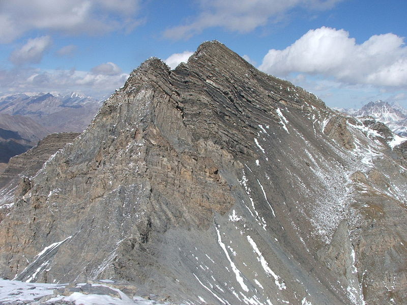 View of Mount Enciastraia